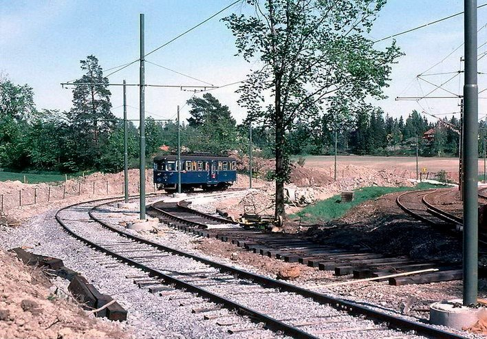 Tram 405 (C2) on temprorary tracks near Gjønnes.